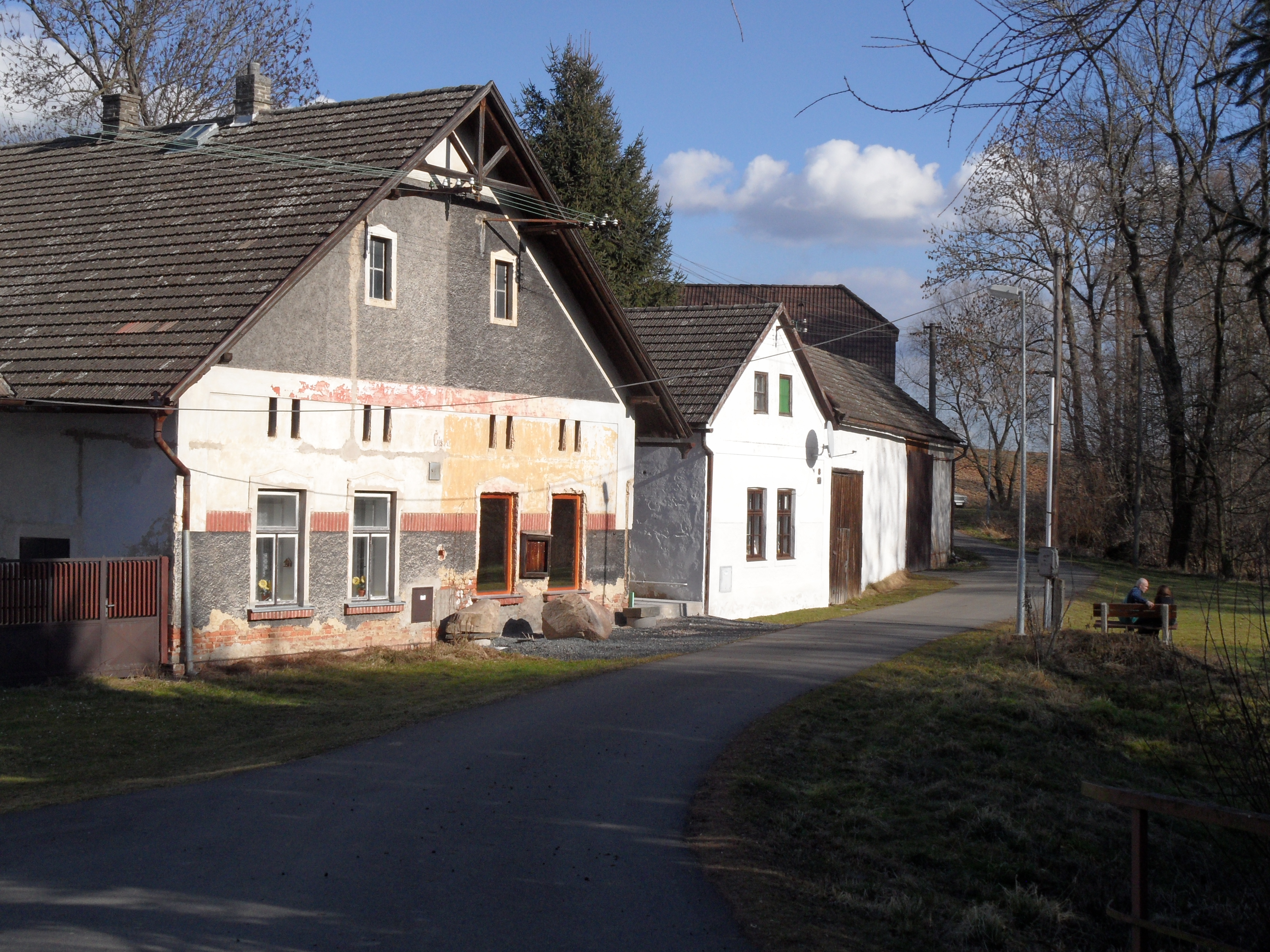 Chrastice (Skryje) D. View towards Skryje, Havlíčkův Brod District, the Czech Republic.